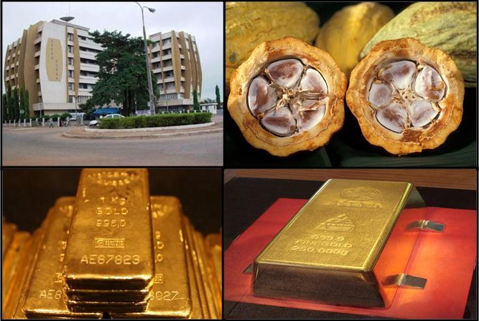 1. Sunyani Cocoa House in Brong Ahafo in Ghana. 2. Cocoa; cocoa beans in a cacao pod. 3. Gold reserves. 4. Gold bars.